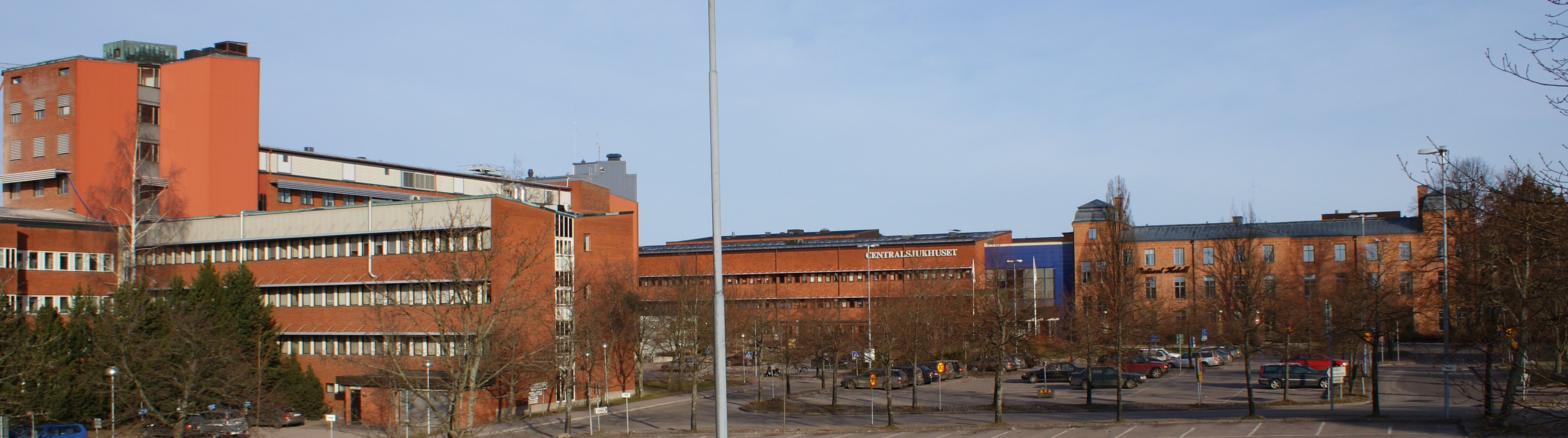 The Central hospital in Karlstad, Sweden.